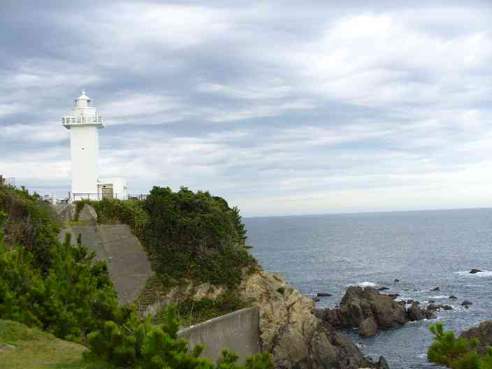 Anorizaki-todai is a lighthouse at Shima city, Mie prefecture Japan.